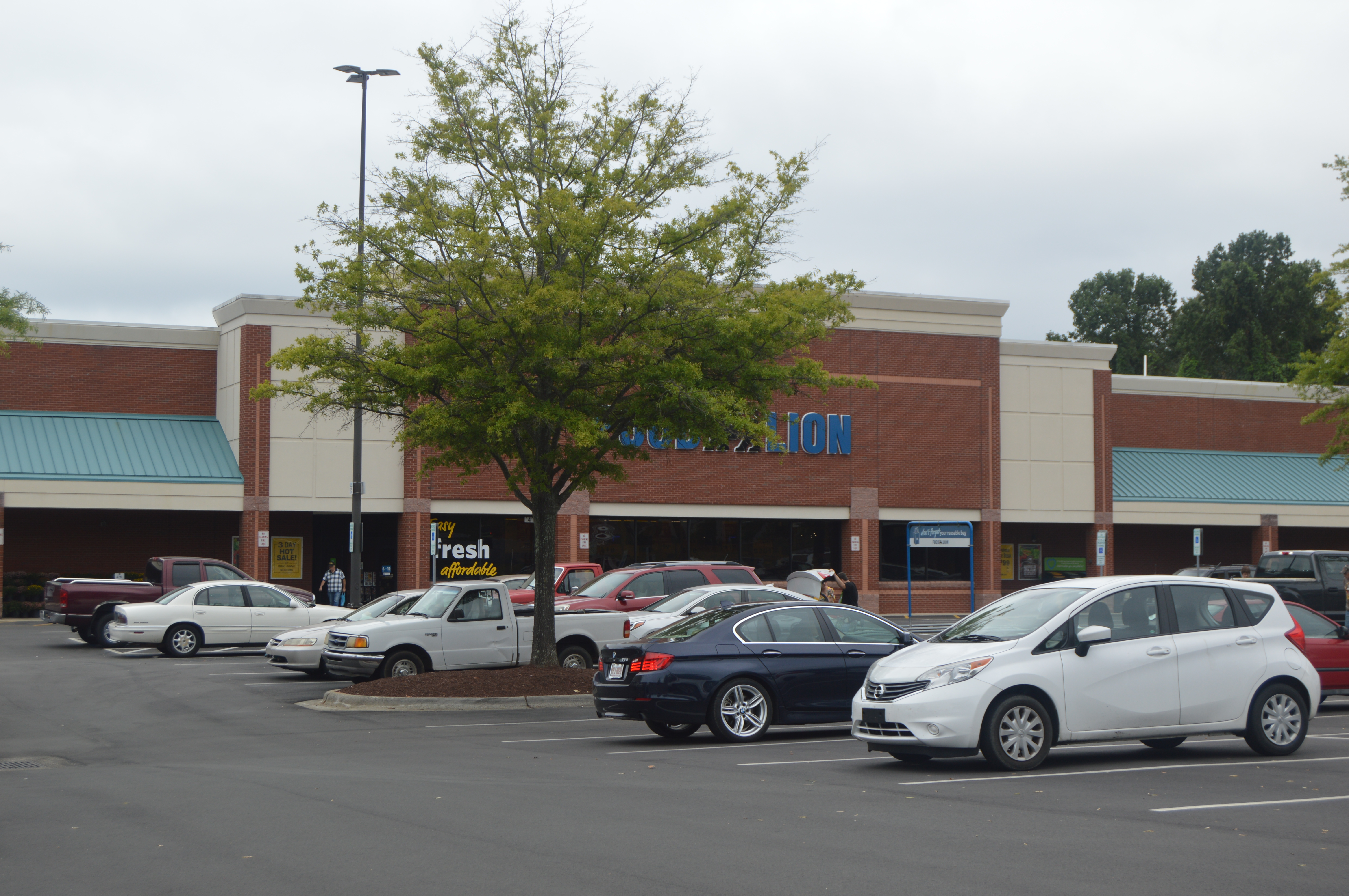 Front of the Food Lion store located at 140 Forest Hill Road in Lexington, North Carolina, United States. It occupies the site of the Henry Shoaf Farm, which was listed on the National Register of Historic Places in 1984; although the farmstead has been destroyed, the site has not yet been removed from the National Register.